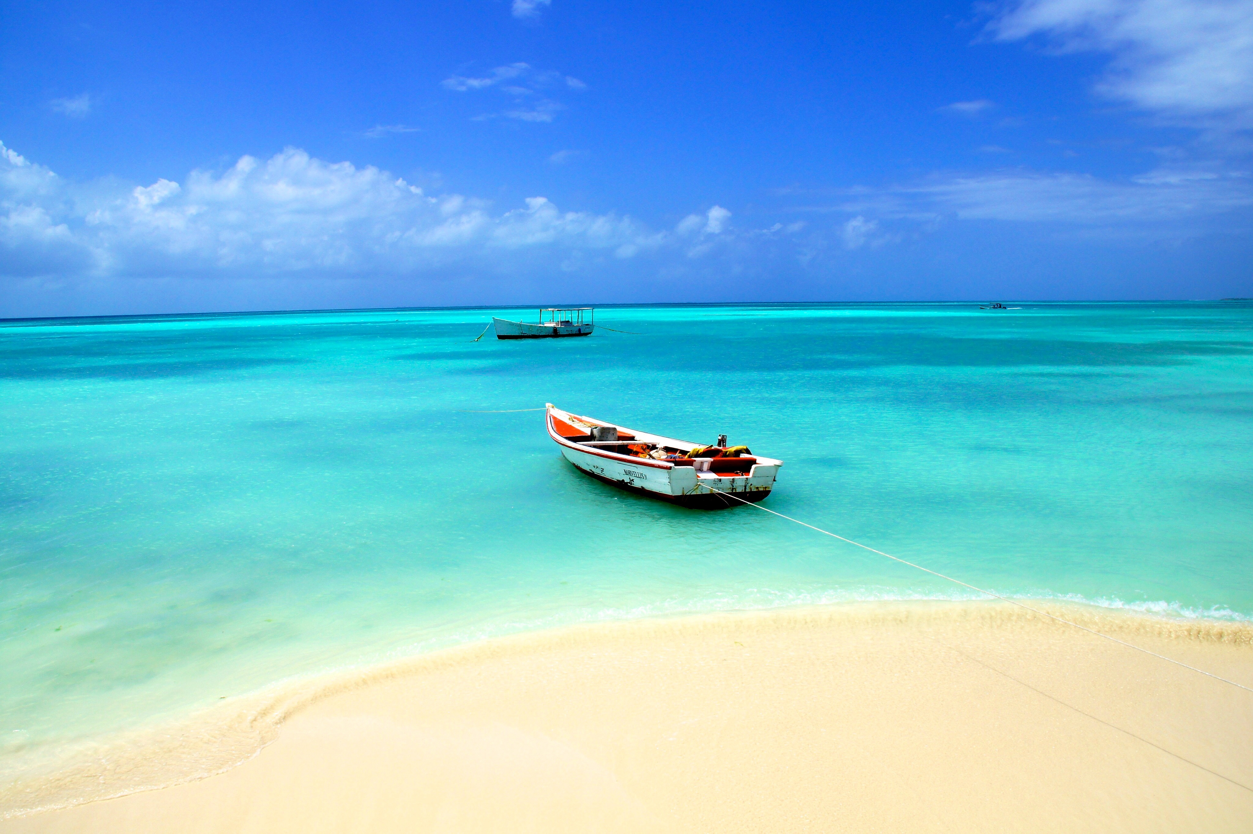 Paradise in Los Roques